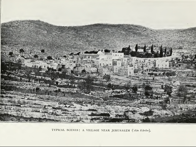 Ein Kerem 1913